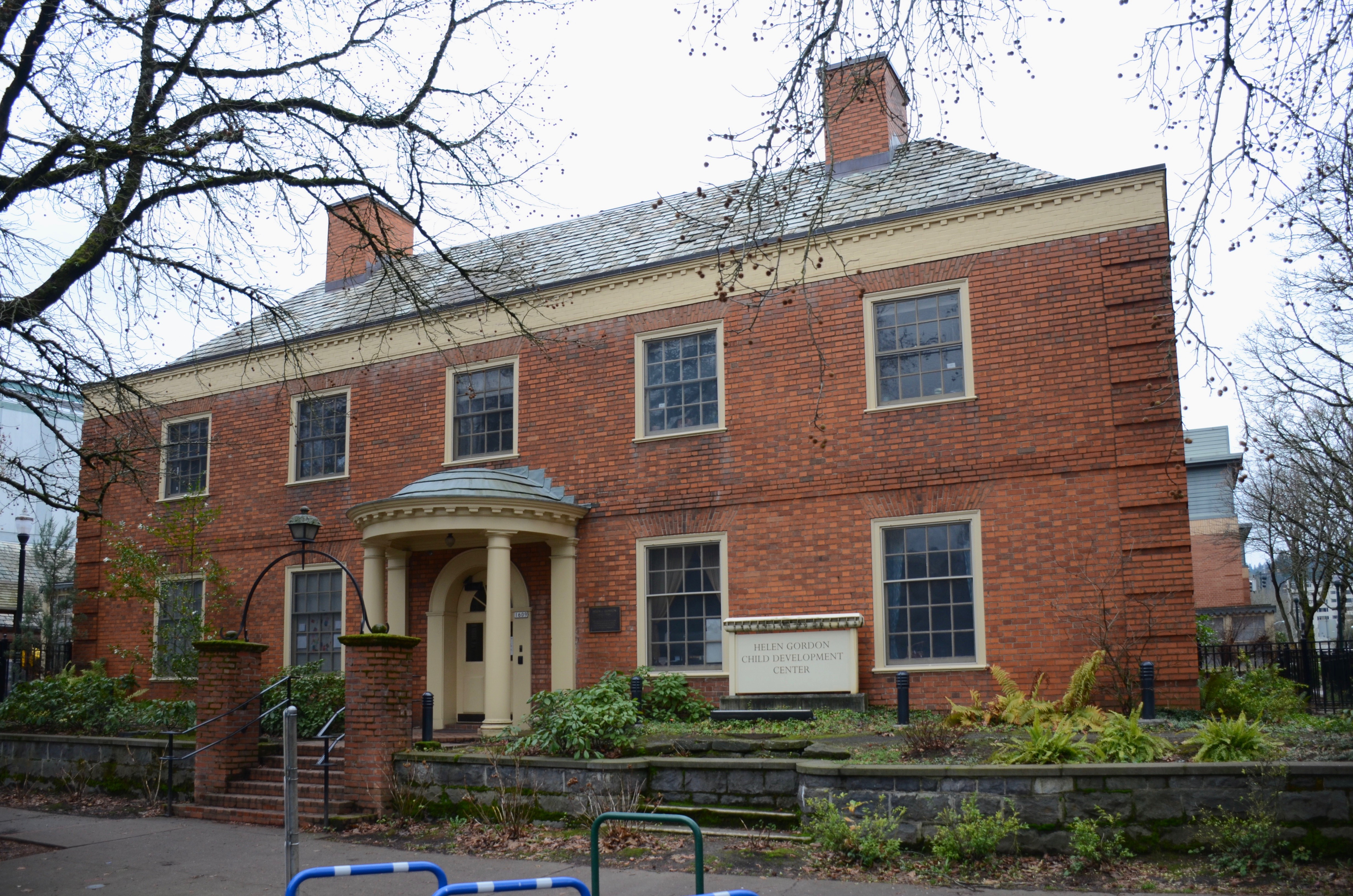 The historic Fruit and Flower Mission building in downtown Portland, Oregon, now houses the Helen Gordon Child Development Center. It is listed on the U.S. National Register of Historic Places under its original name.